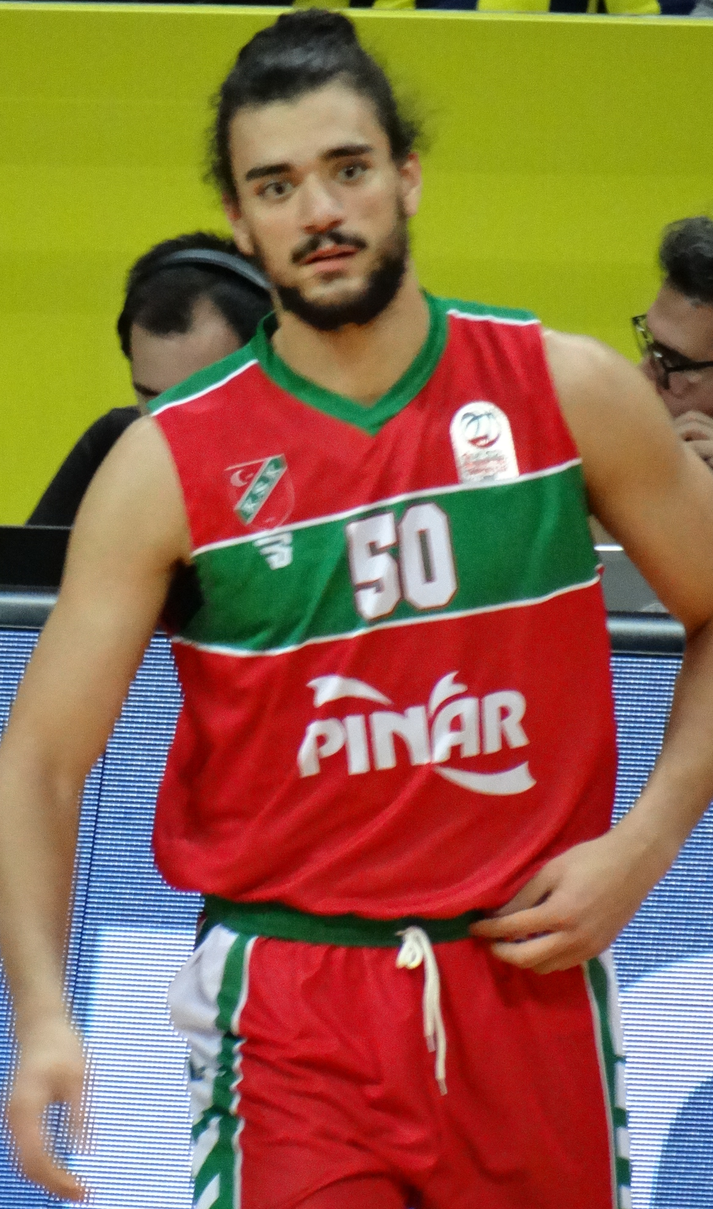 Assem Marei 50 Pınar Karşıyaka TSL 20181204